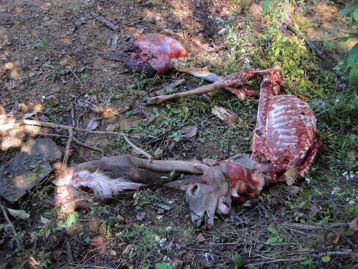 A white-tailed deer (Odocoileus virginianus) carcass in rural DeSoto County, Mississippi